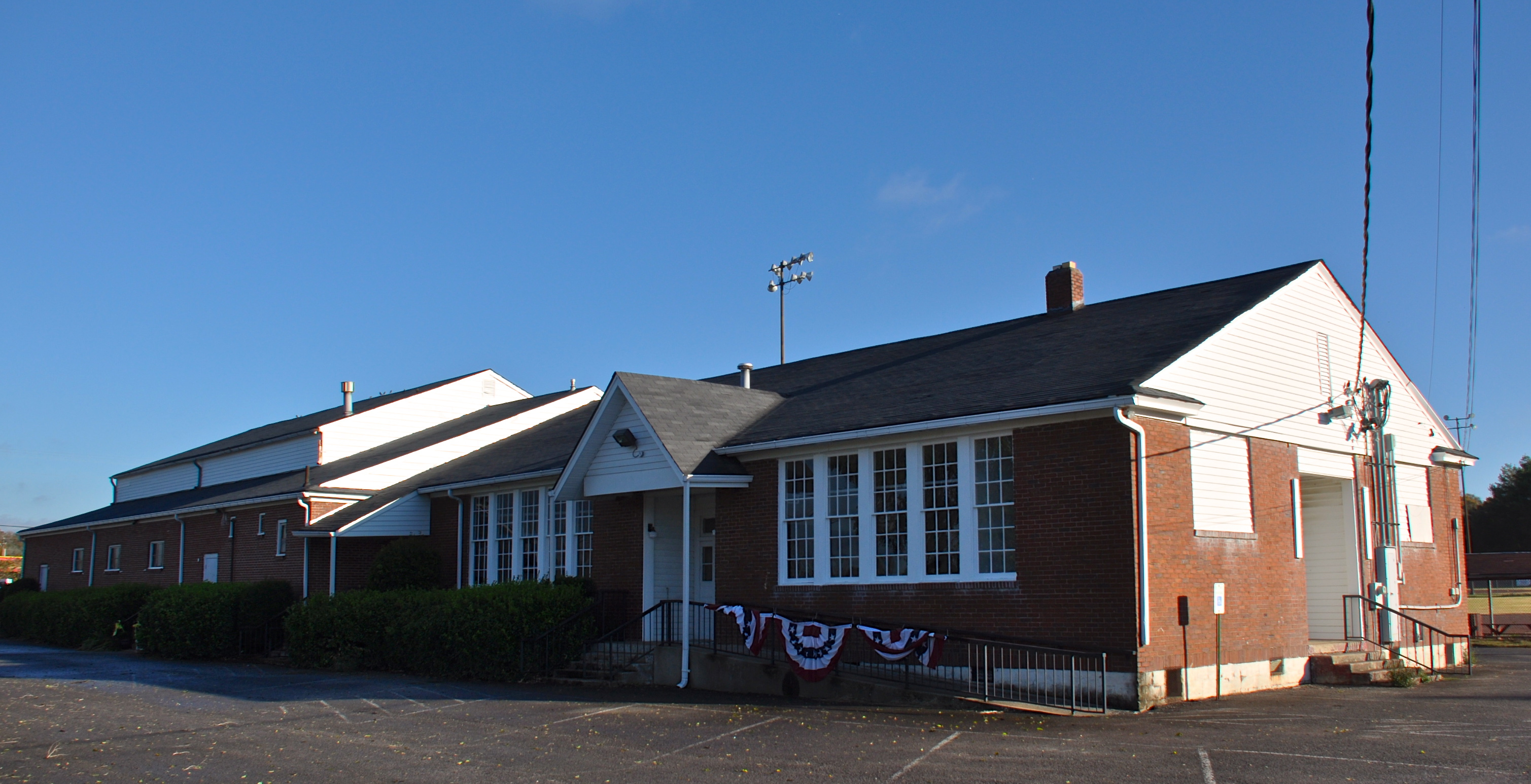 The Nolensville School, also known as Old Nolensville Elementary School, is a former public school in Nolensville, Tennessee, It now serves as a community recreation center.